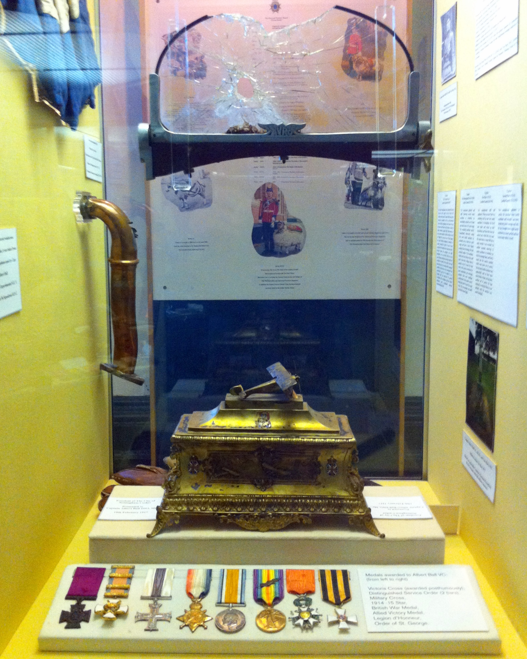 Albert Balls WW! Medals in the Sherwood Foresters Museum, Nottingham Castle, England